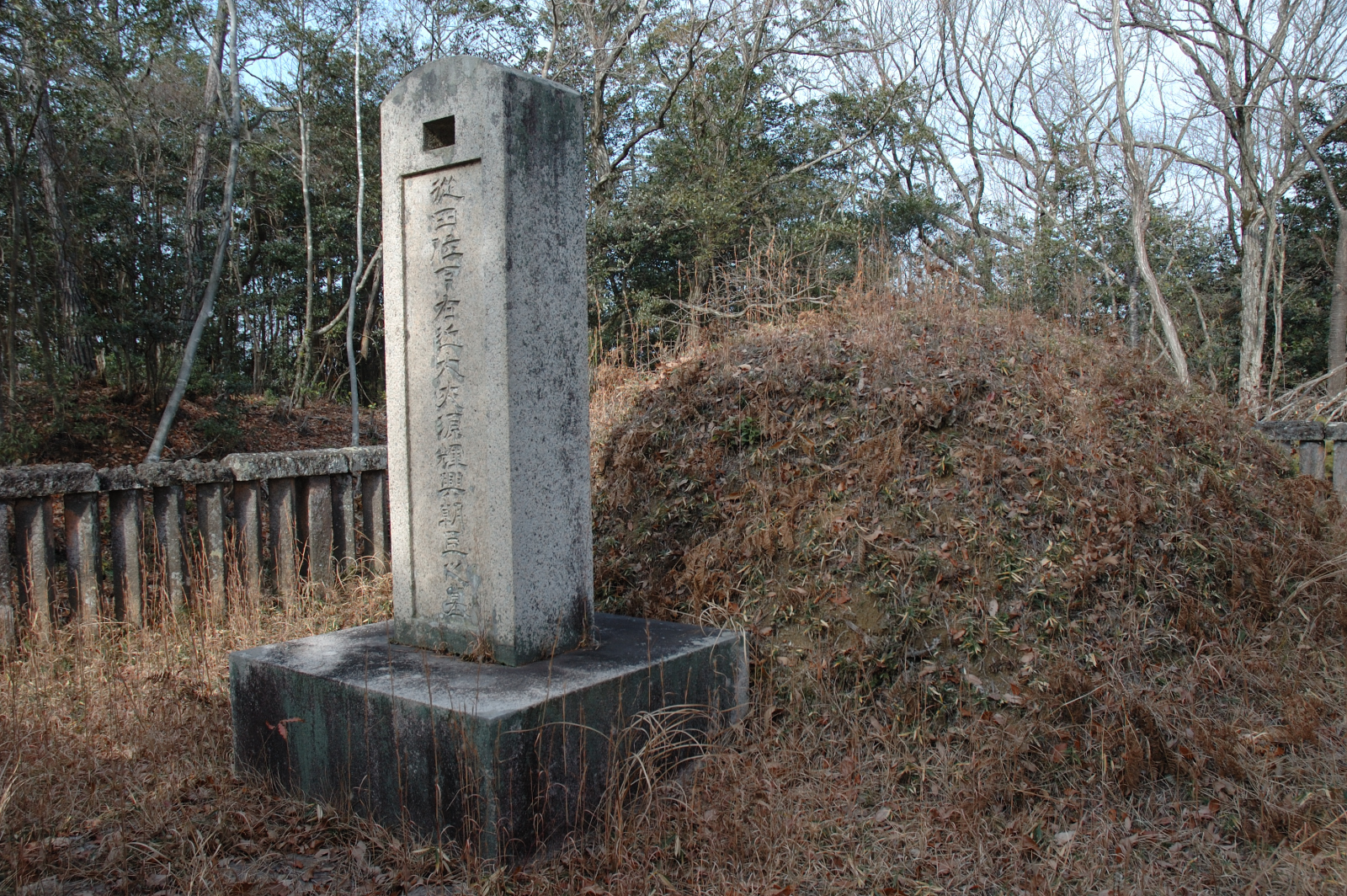 grave of Ikeda Teruoki in Roku-no-oyama